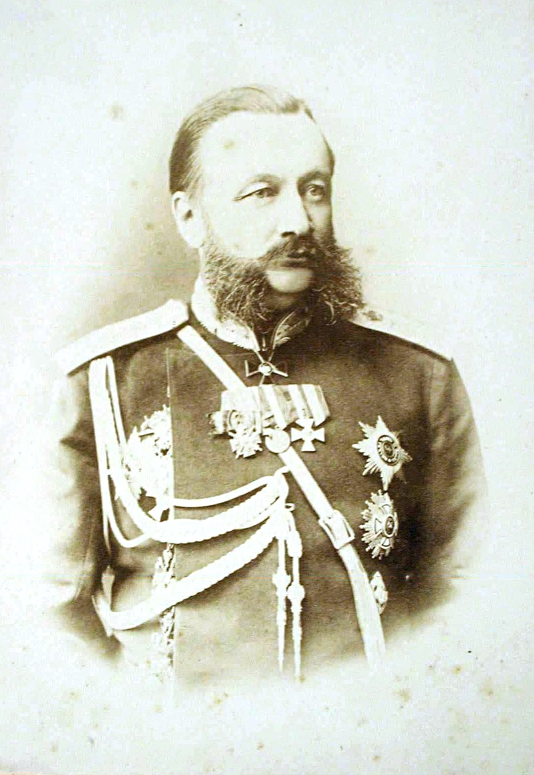 VIKTOR VILGELMOVICH fon VAL (1840-1915) russian general Governor of S-Peterburg